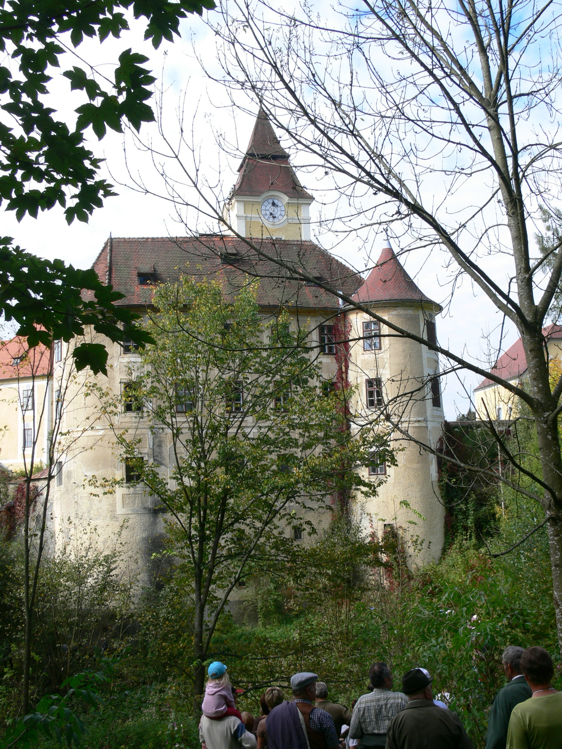 Sprinzenstein castle. Castle walls and tower